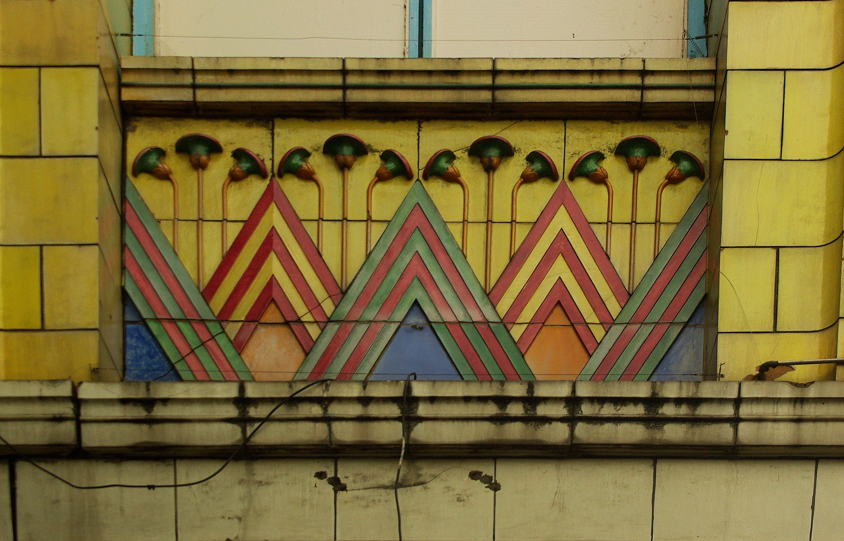 Exterior detail, former Carlton Cinema, Essex Road